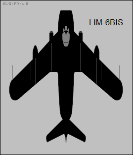 Plan-view silhouette of the Lim-6bis